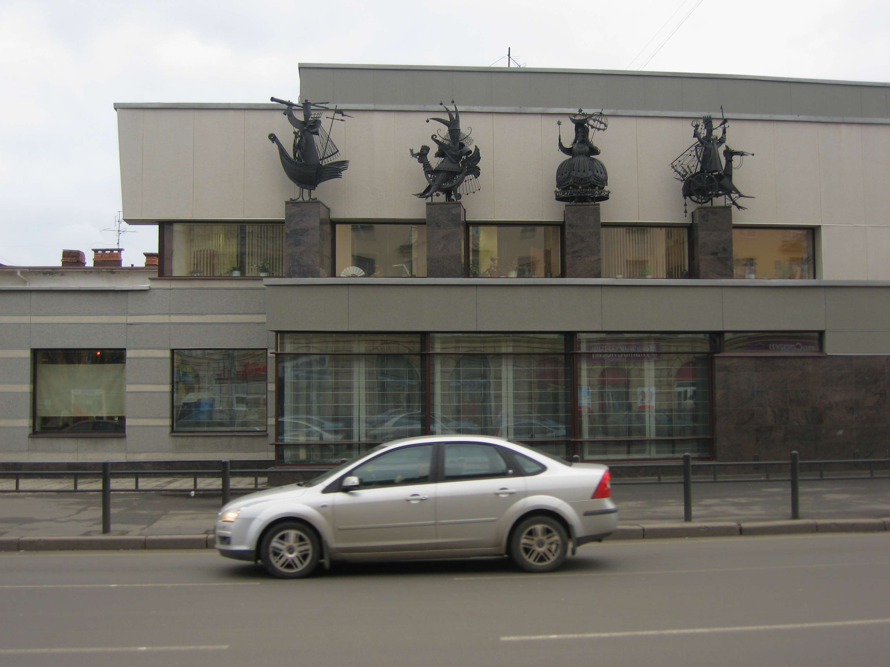 Petrozavodsk Puppet Theater